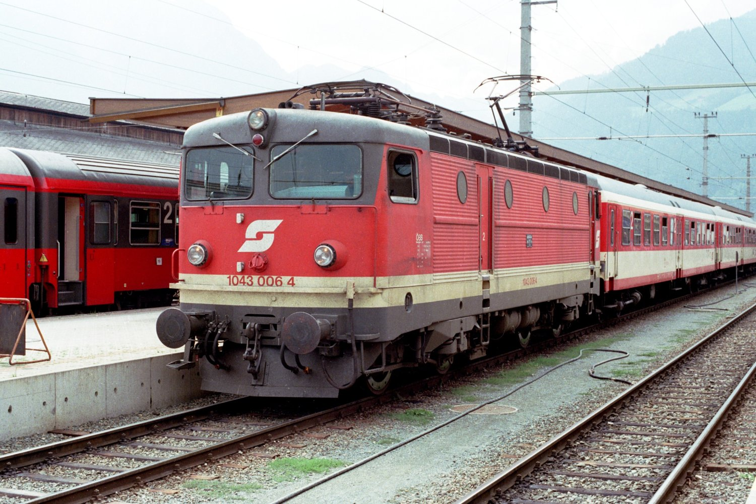 Description: ÖBB 1043 006-4 in Lienz station in East Tyrol. The ÖBB 1043 were engines of the swedish Rc2 type, built for Austria in the early 1970ies. After withdrawal from service the whole series was sold to a swedish railway company. own image, taken August 23, 1995 Photographer: Herbert Ortner, Vienna, Austria